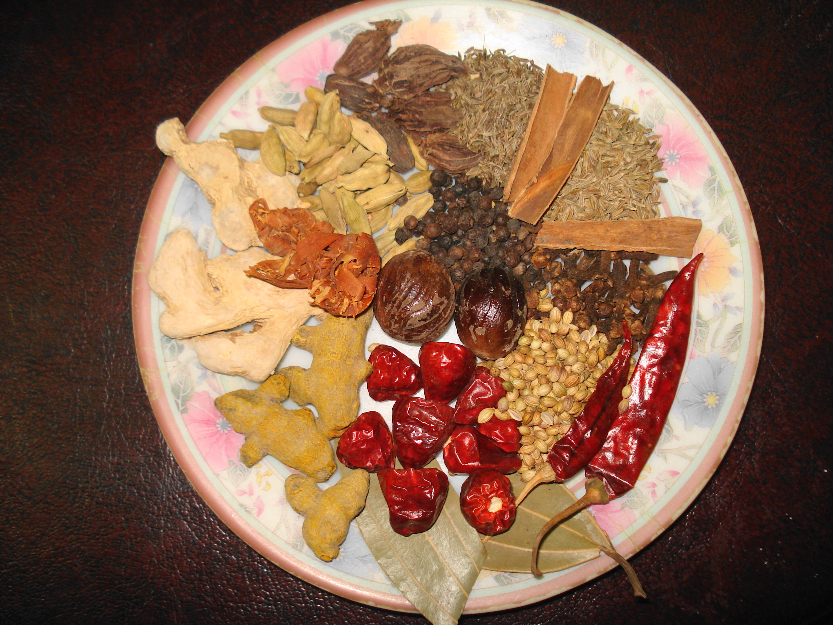 Curry powder is an excellent blend of spices